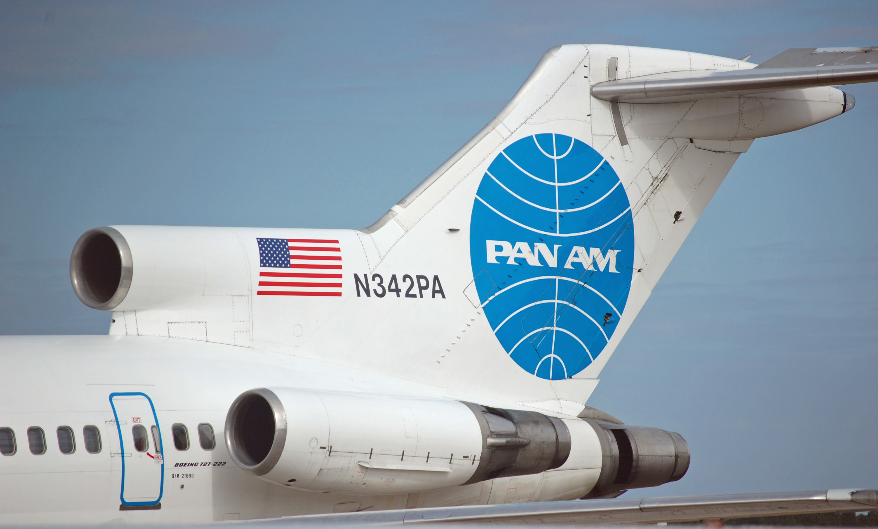 Tail of Pan Am Clipper Guilford, Boeing 727-222, tail number N342PA, (CN/MSN: 21893, Line #: 1503) Built: 1979